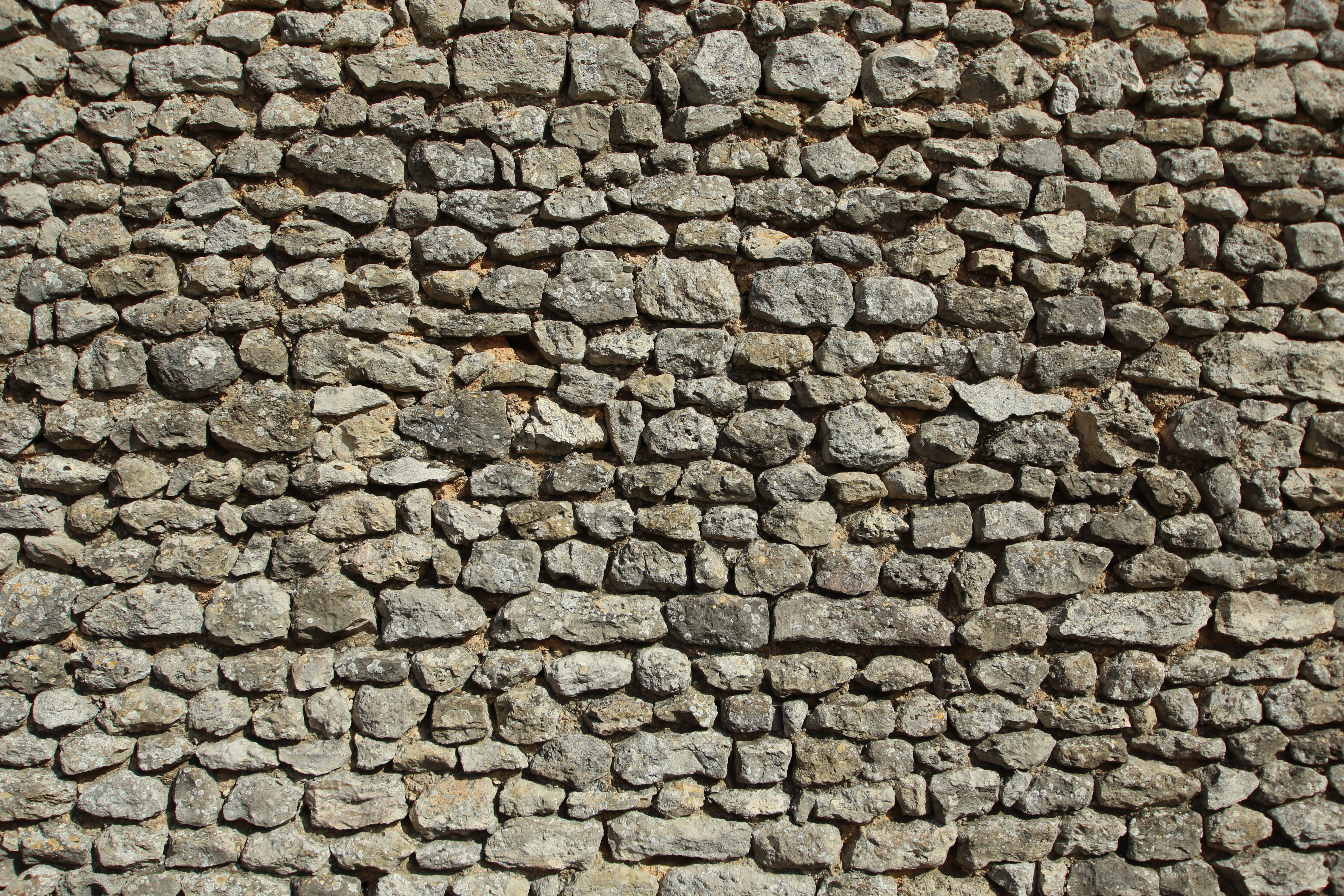 View of Grandville hamlet in Gommerville, Eure-et-Loir, France. Object location48° 21′ 40.1″ N, 1° 58′ 11.35″ E